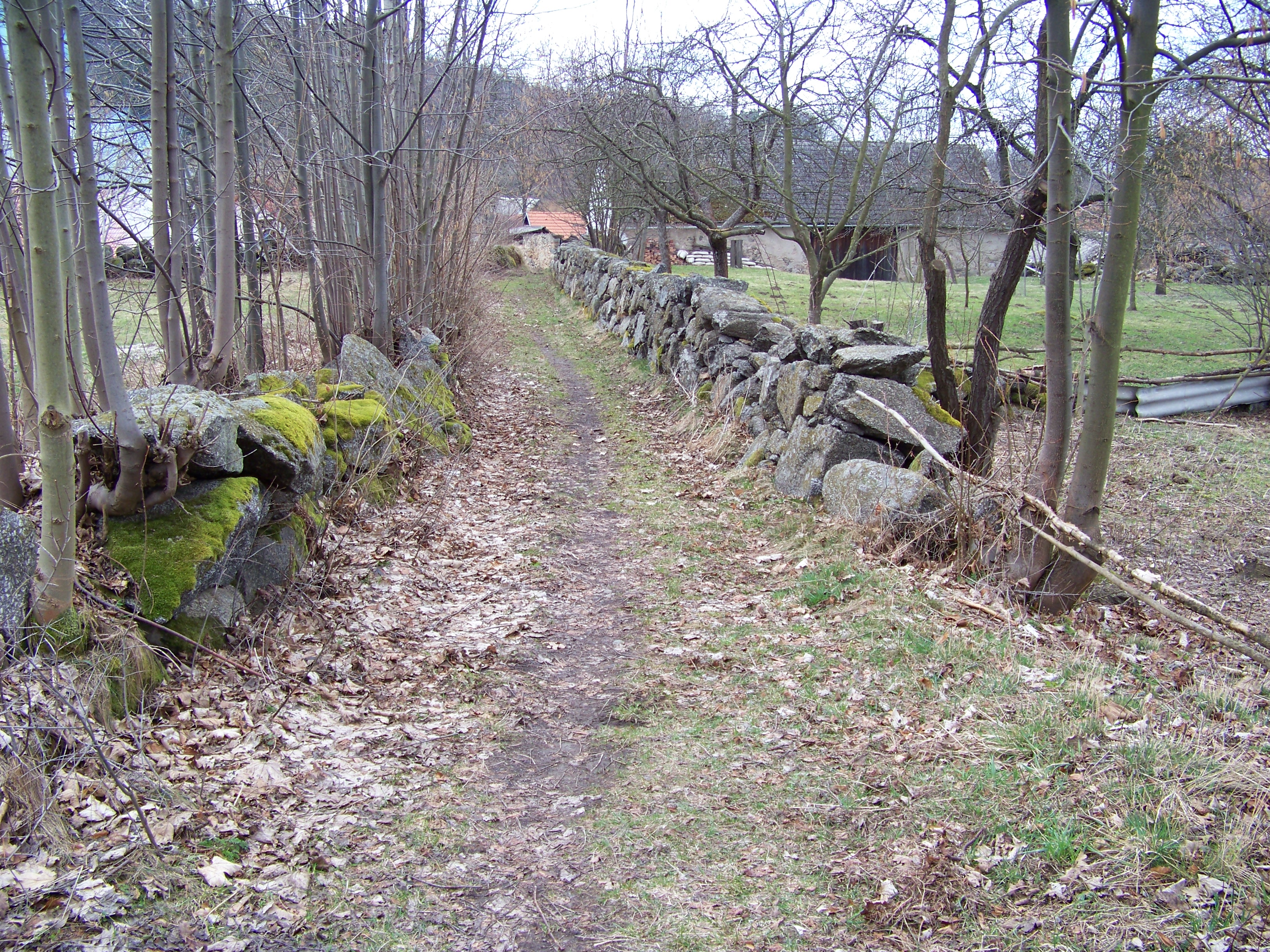 Sedlec-Prčice-Myslkov, Příbram District, Central Bohemian Region, the Czech Republic. A trail.